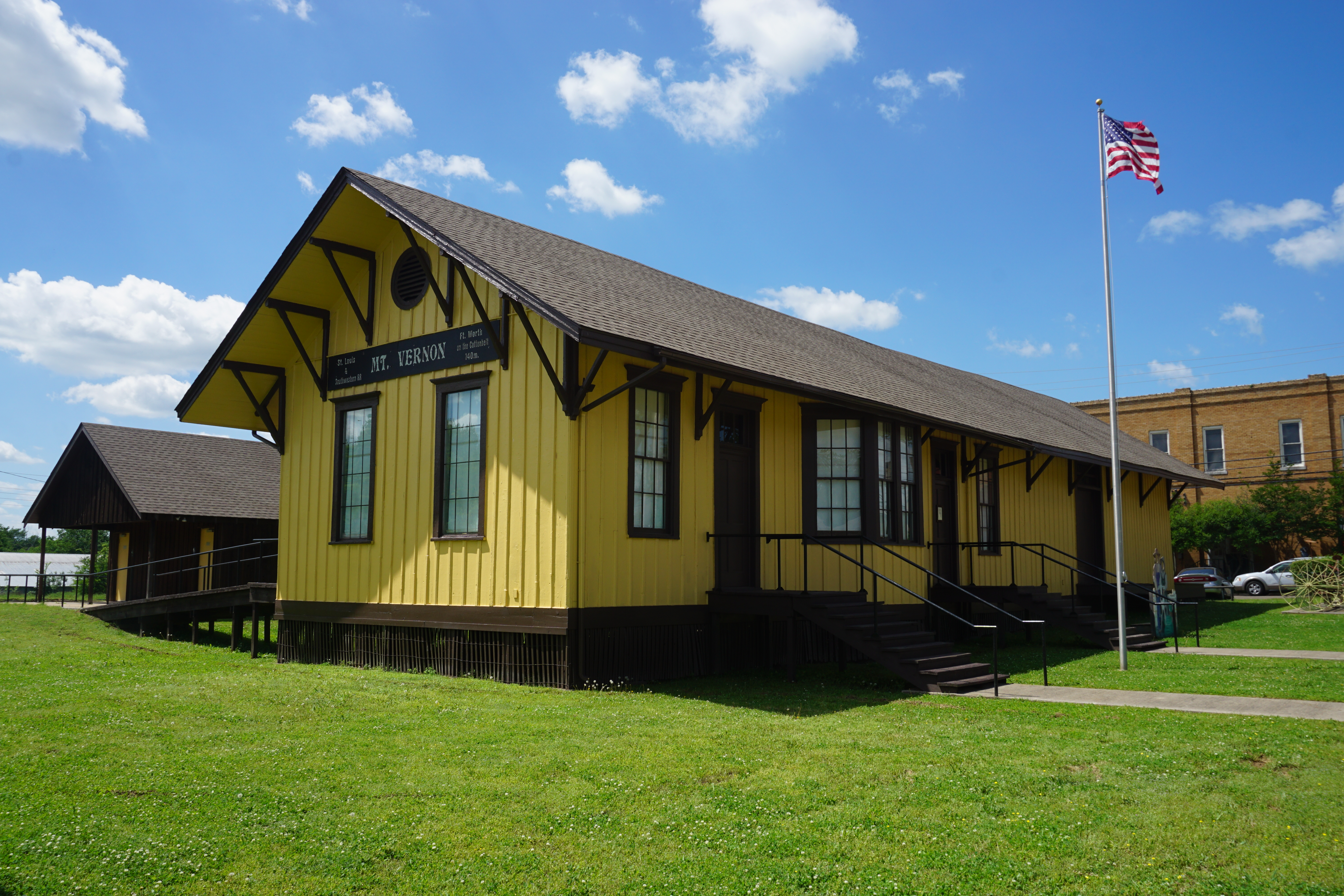 The Cotton Belt Depot Museum in Mount Vernon, Texas (United States).